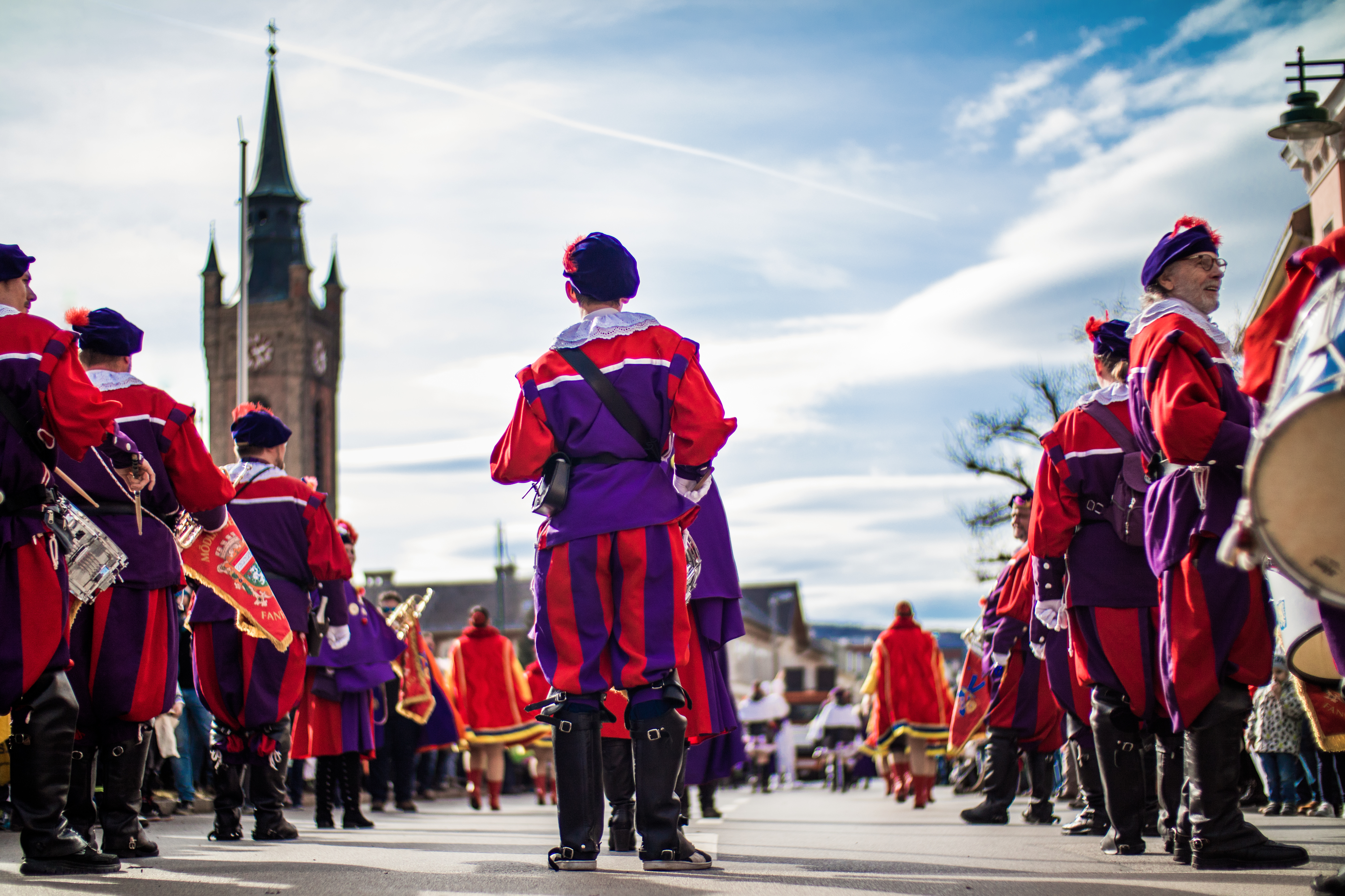 Canon EOS M50 and Canon 50mm F1.4 USM